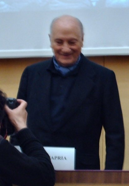 Raffaele La Capria at Galassia Gutenberg's book fair